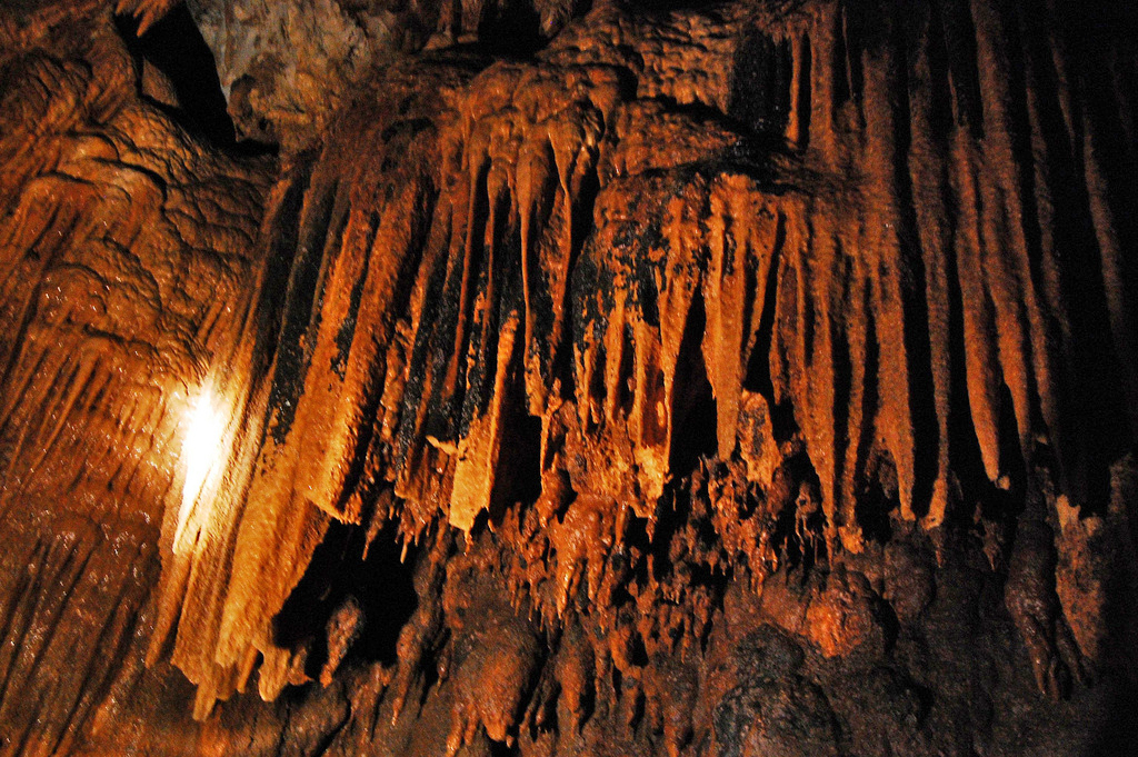 Ceiling of the Barton Creek Cave in Belize.